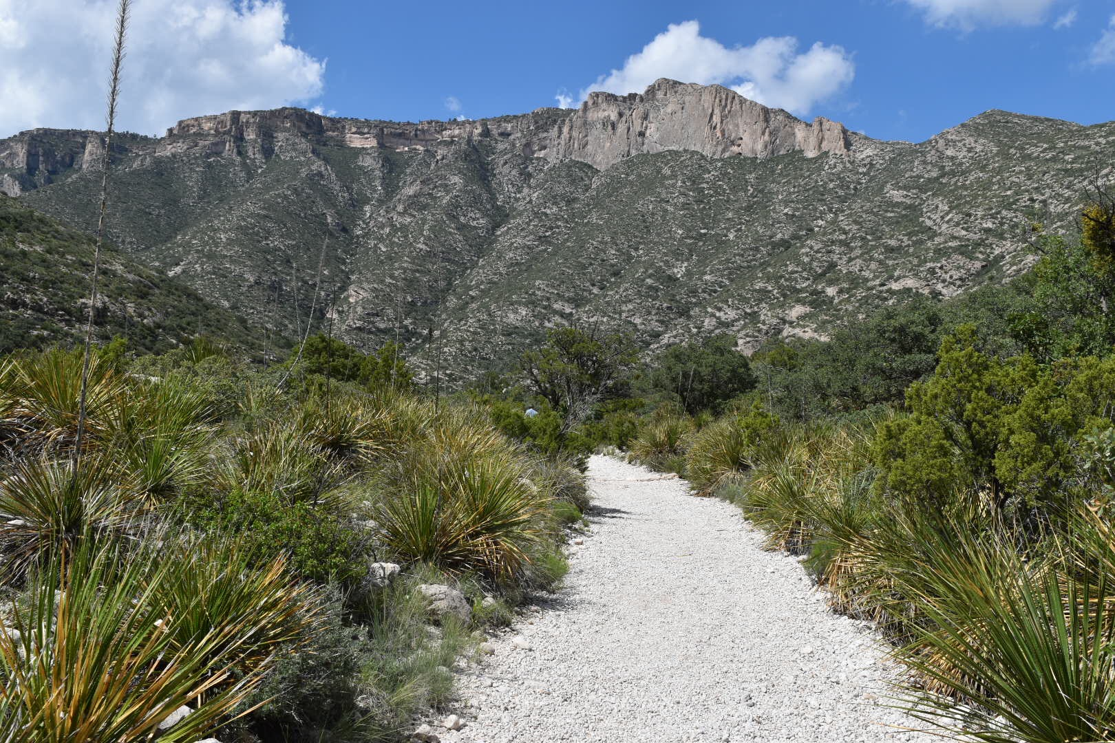 Hiking trail into the McKittrick Canyon